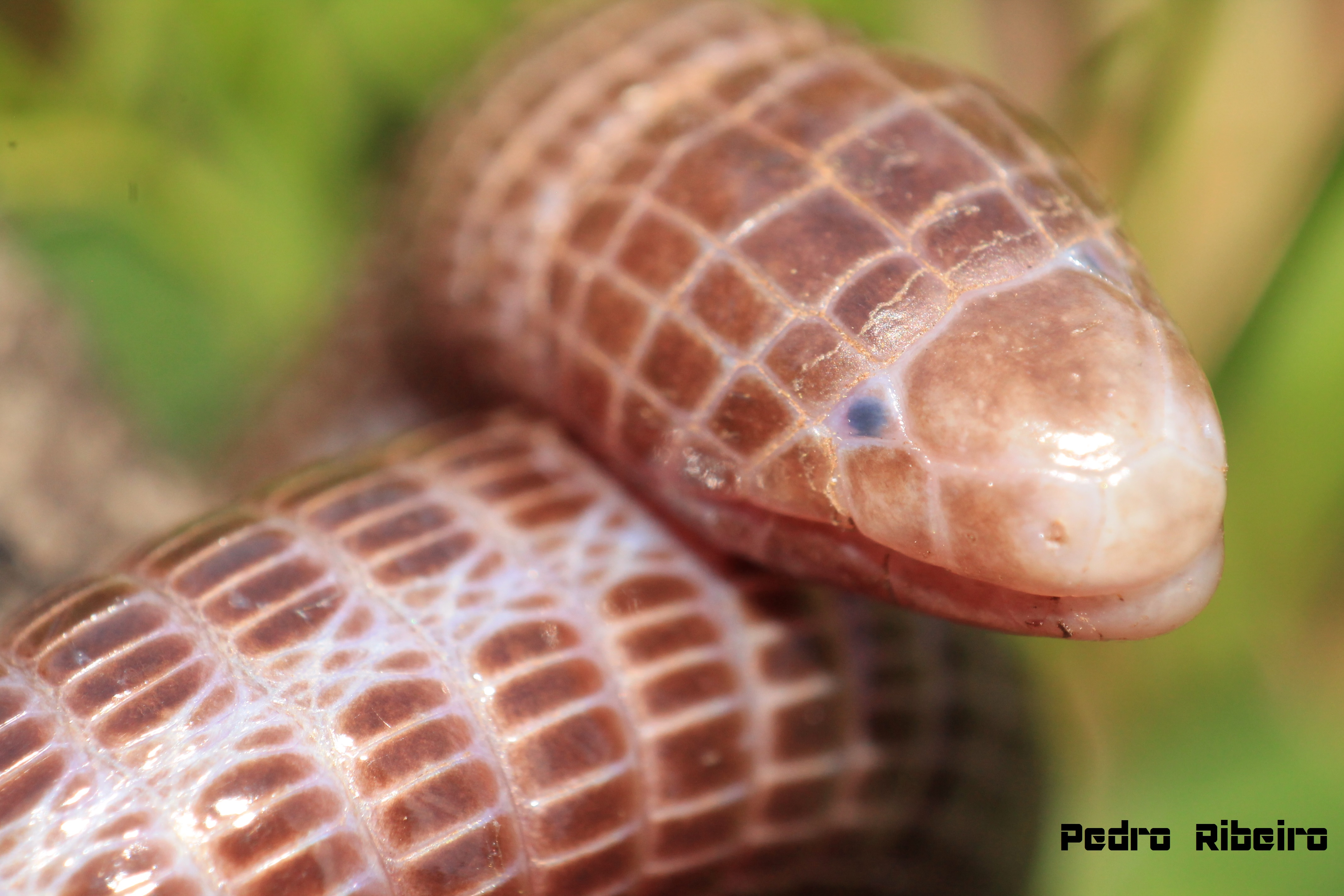 Macro photography of the head